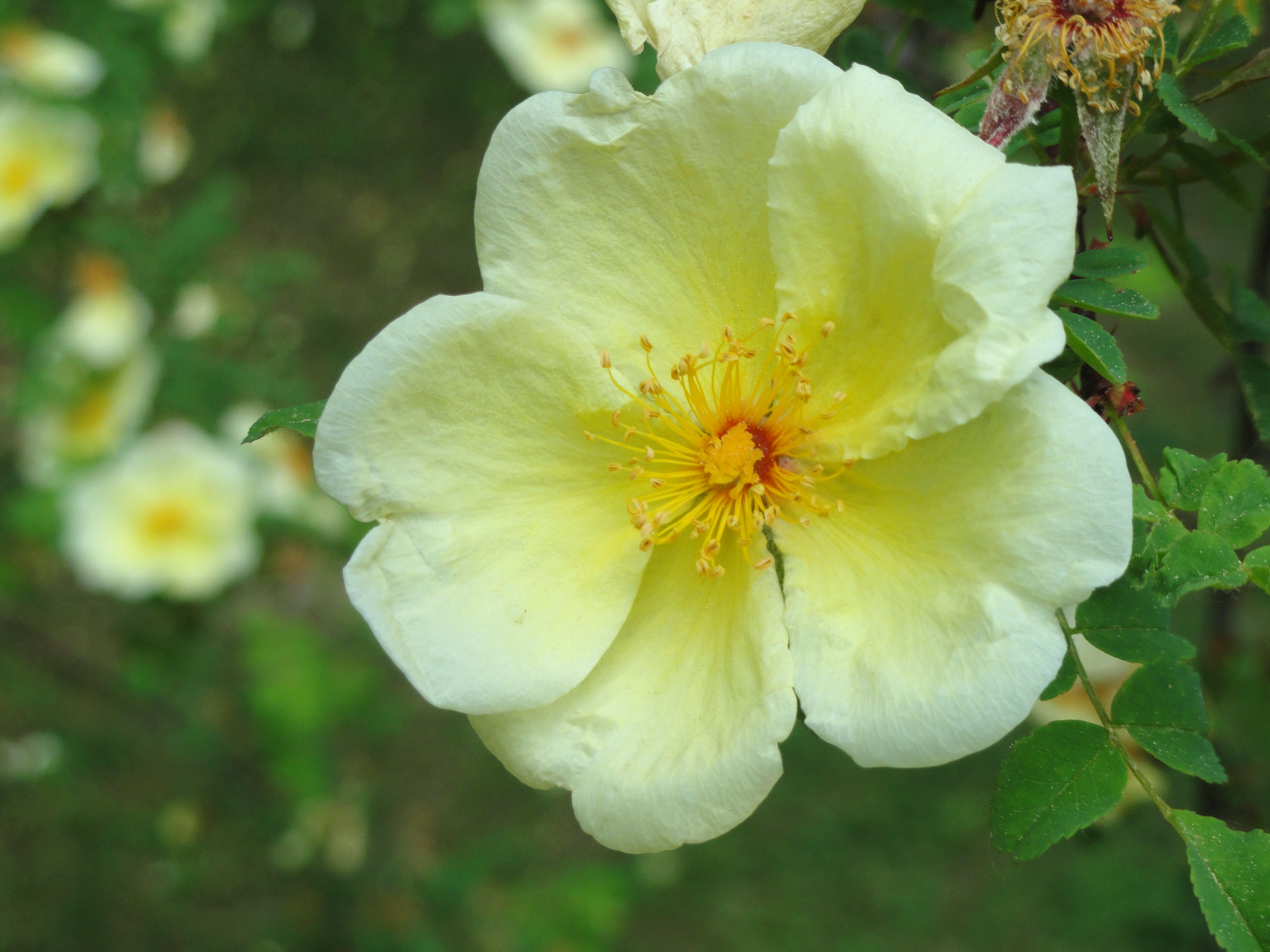 Rosa hugonis specimen in the Botanischer Garten Freiburg, Freiburg im Breisgau, Baden-Württemberg, Germany.